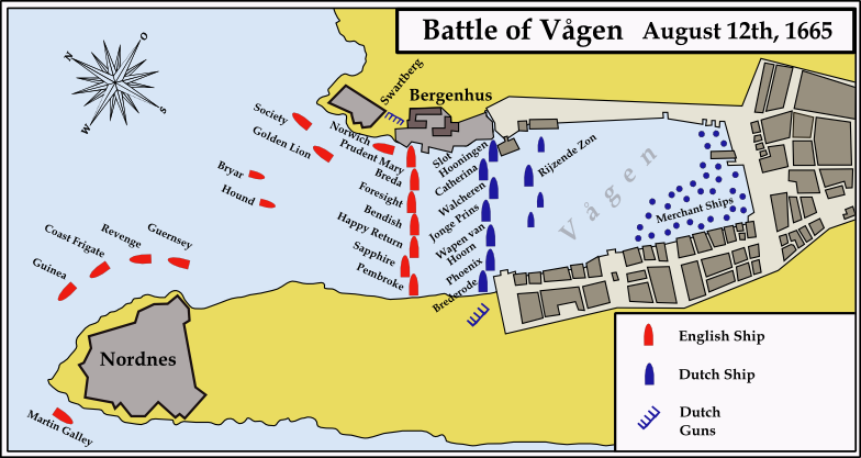 Map of the Battle in the Bay of Bergen (Norway), August 12th, 1665 (English Version)